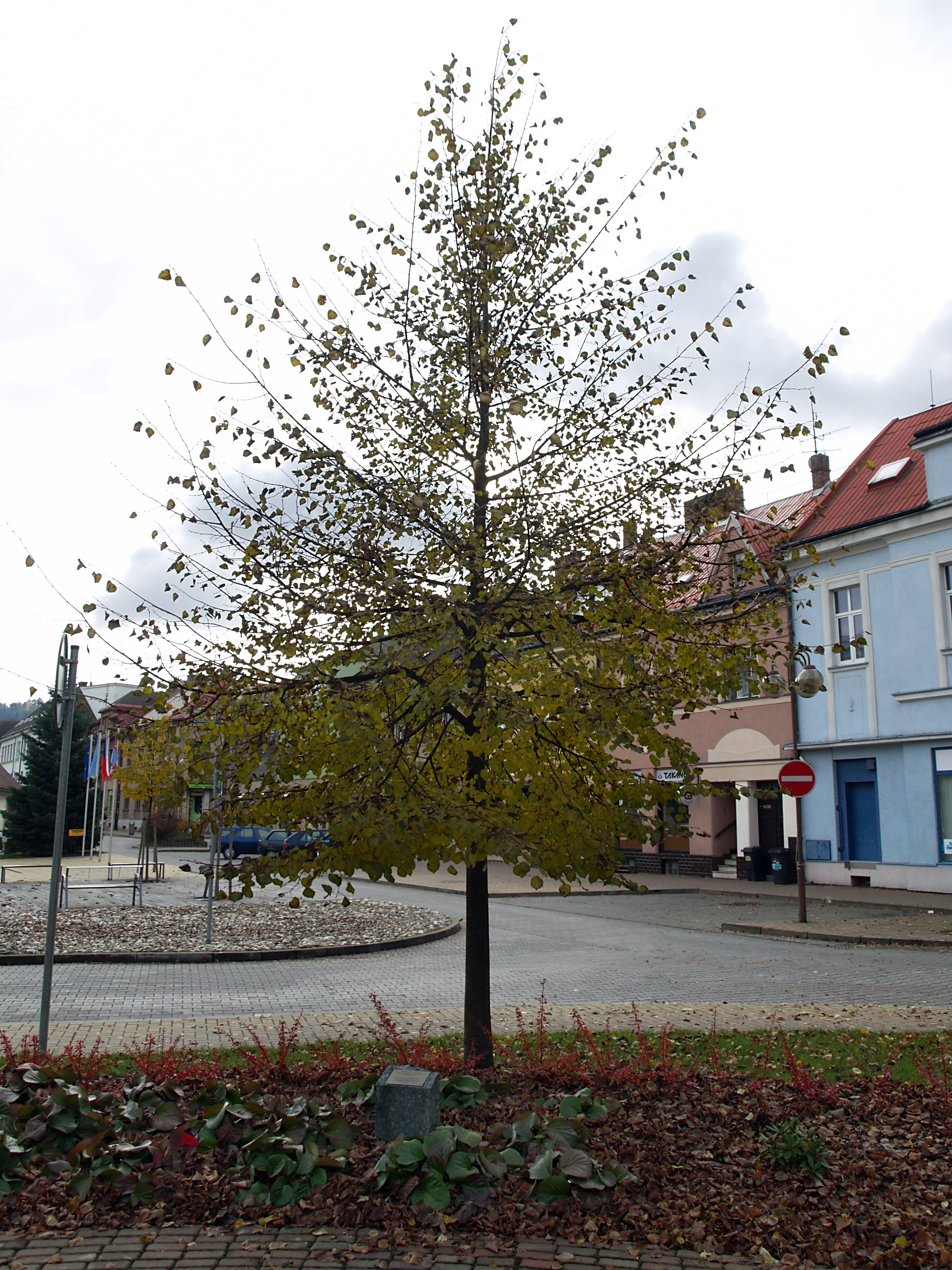 Czech town Semily—Tilia cordata in the Rieger square, gift from parter German municipality Schauenburg on the occasion of Czech joining European Union, May 1, 2004